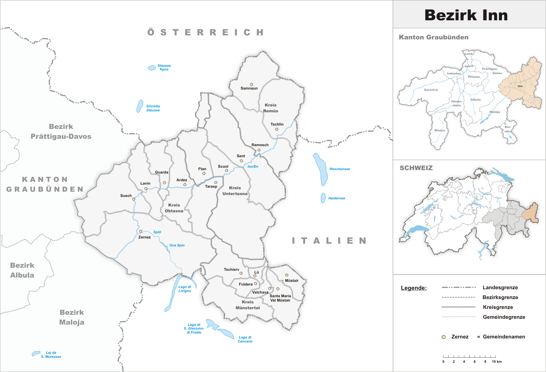 Municipalities in the district of Inn